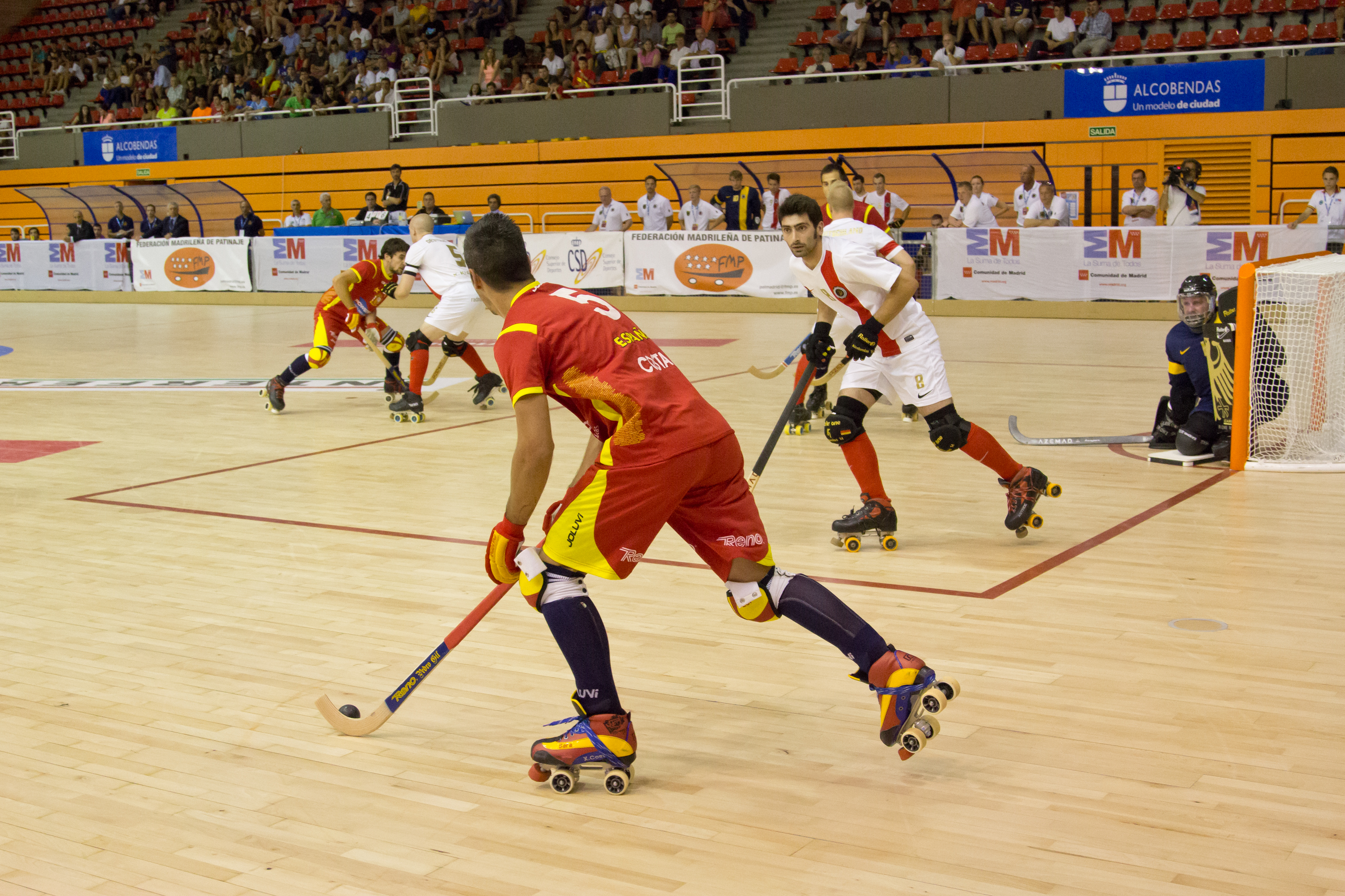 Spain vs Germany, 2014 CERH European Championship.